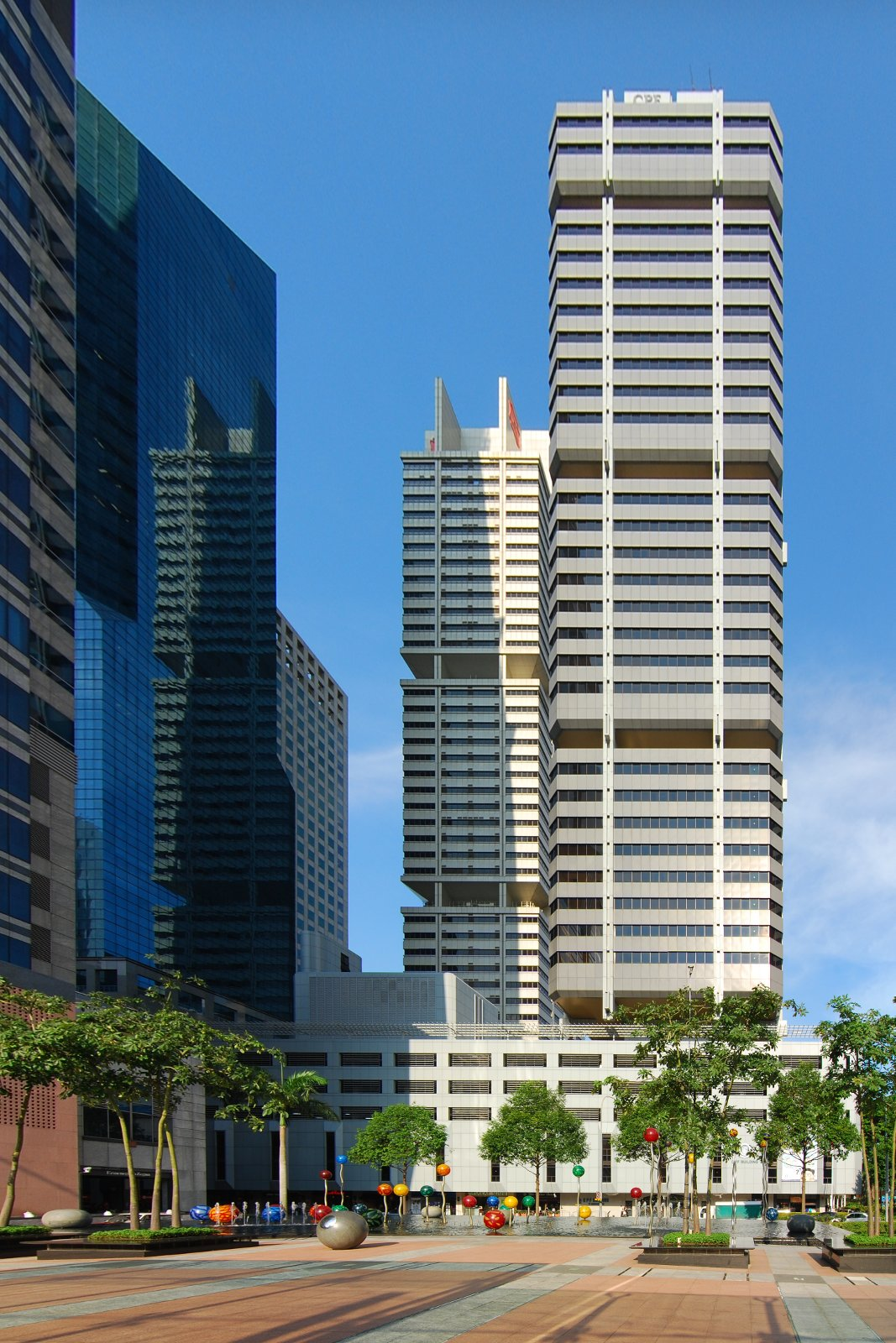 CPF building shot from front of Capital Tower, Singapore. DBS Tower is also visible on the left, slightly behind.